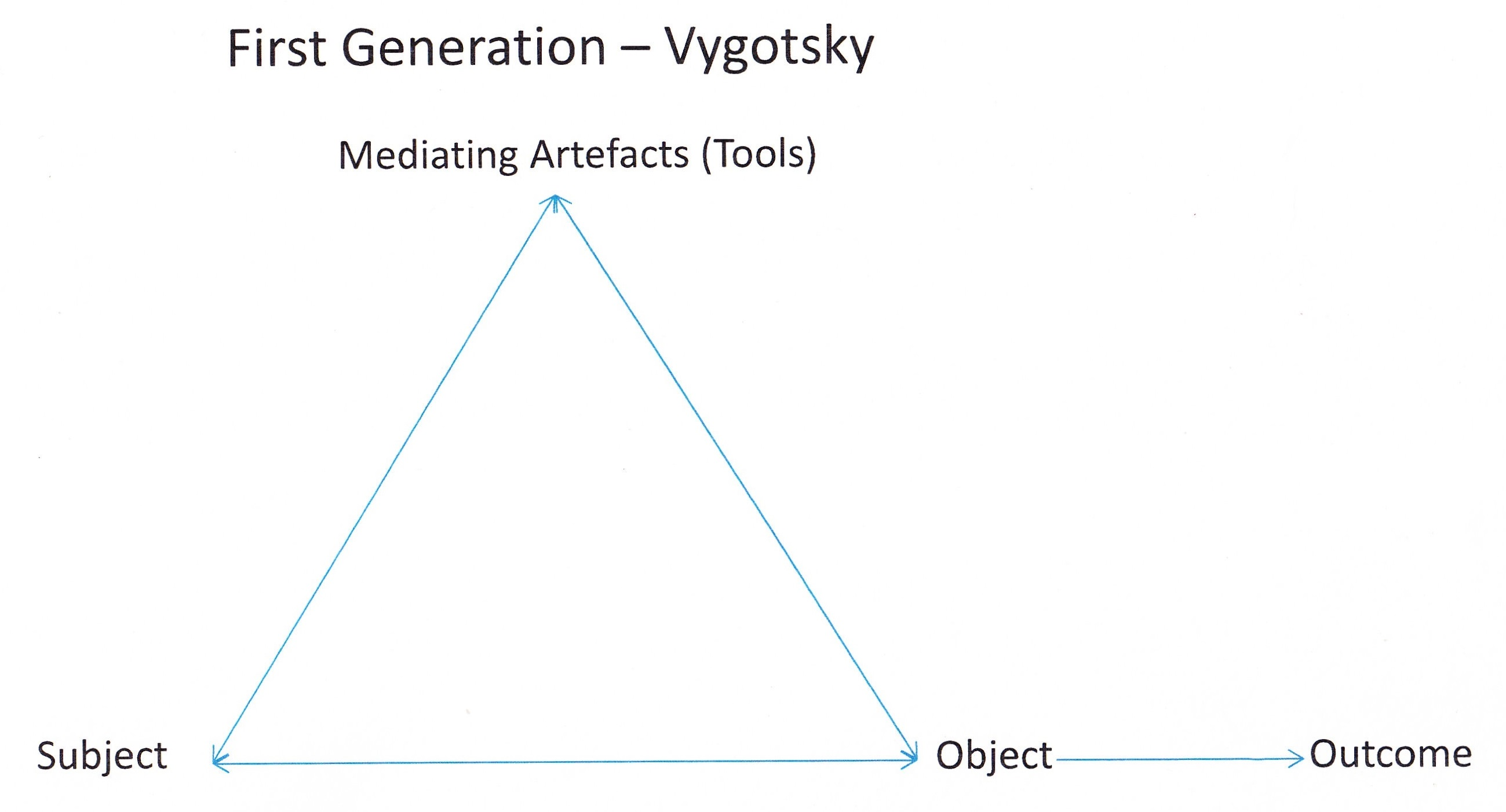 Vygotsky's mediated action triangle (Individual - culture), following Engeström, Yrjö (1999), Learning by expanding: Ten years after, translated from the German edition by Falk Seeger, and Nygård, Kathrine (2010), Introduction to Cultural Historical Activity Theory (CHAT), InterMedia, University of Oslo